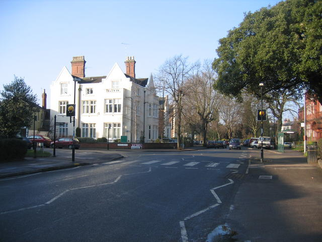 Site of Avenue Road Tram terminus. This was the site of the Leamington Spa terminus of the Warwick and Leamington Tramway. This was a single route, opened originally in 1881 as a horse drawn tramway to Smith Street in Warwick. Between May and July 1905 it was closed for conversion to electricity. By the late 1920s the competition from motor omnibuses became fierce and the last passenger carrying tram ran on 16th August 1930.